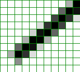 Line pixels with anti-aliasing enabled.